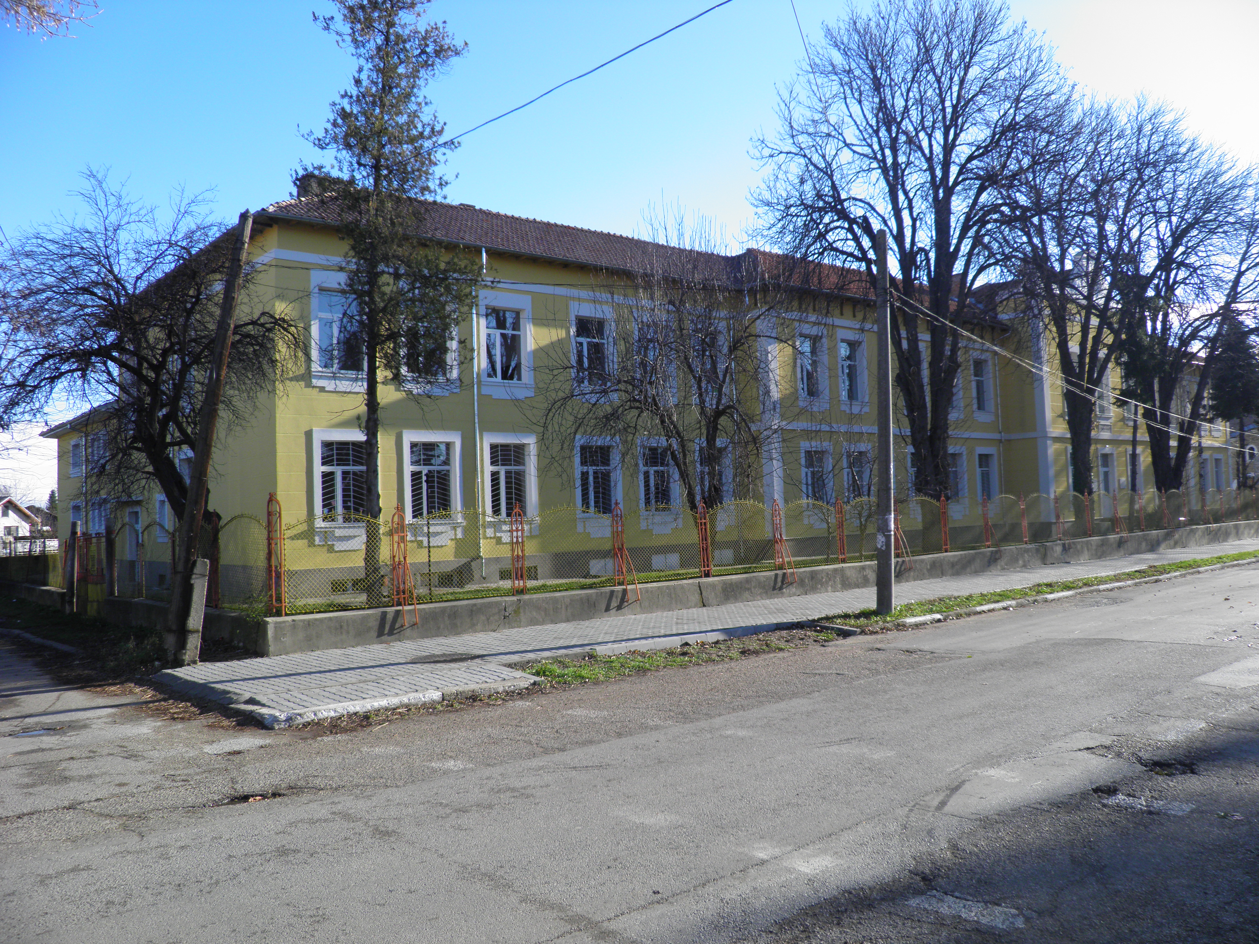 Основно Училище "Бачо Киро"